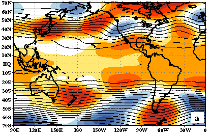 A zonal flow regime. Note the dominant west-to-east flow as shown in the 500 hPa height pattern showing a mid-latitude cyclone.